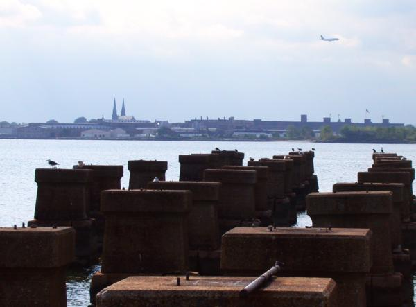 Elizabeth as seen across Newark Bay from Bayonne. The former Singer Sewing Machine factory is to the left of the Church of St. Patrick's dual Gothic steeples along the waterfront. The piers in the foreground are all that remains from the Central Railroad Company of New Jersey's four-track mainline bridge across the bay. At one time it was the worlds largest lift-span bridge. © 2004 Matthew Trump.